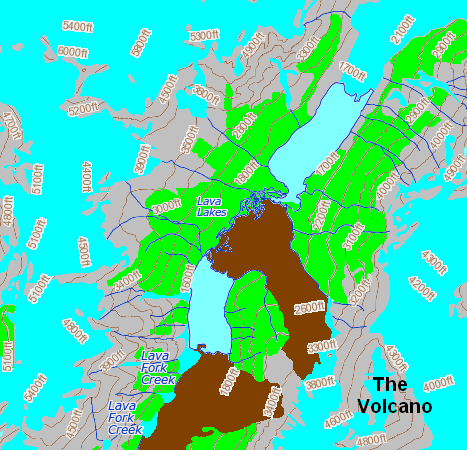 Topographic map of the Lava Forks Provincial Park area in northwestern British Columbia, Canada.